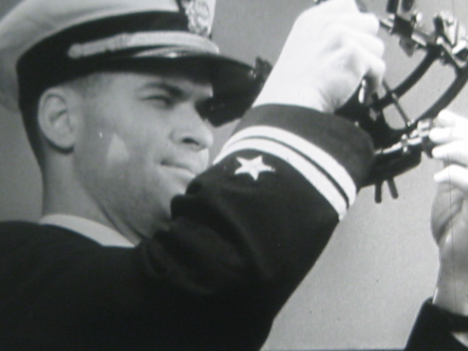 An officer of the U.S. Navy uses a sextant to determine his position.